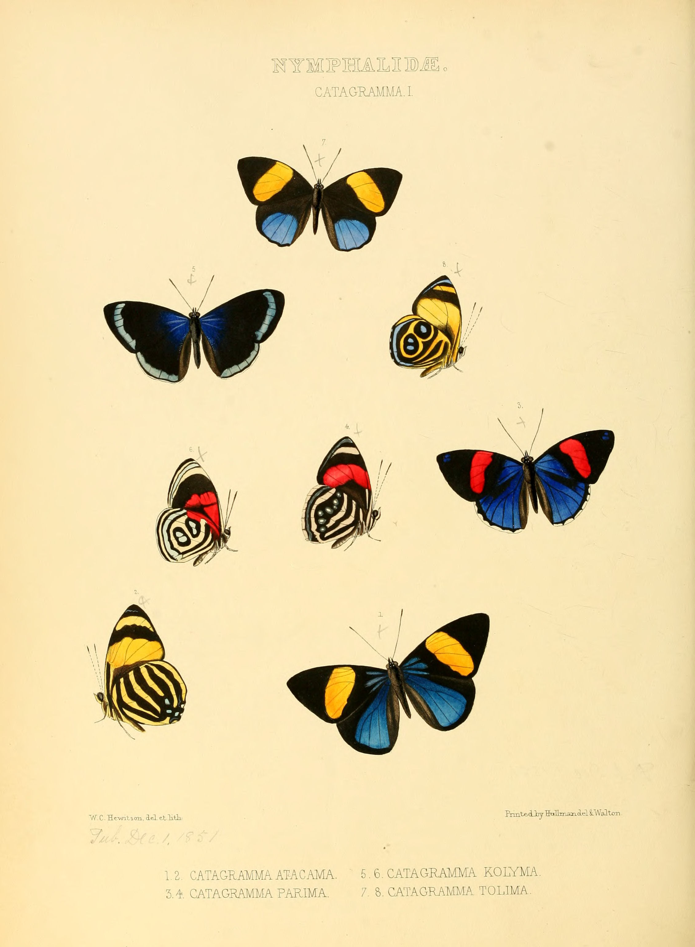 Plate: Catagramma I Catagramma atacama. Figs. 1, 2. Accepted as Callicore atacama (Hewitson, 1851). Catagramma parima. Figs. 3, 4. Accepted as Callicore hesperis (Guérin-Méneville, 1844). Catagramma kolyma. Figs. 5, 6. Accepted as Catacore kolyma (Hewitson, 1851). Catagramma tolima. Figs. 7, 8. Accepted as Callicore tolima (Hewitson, 1851).